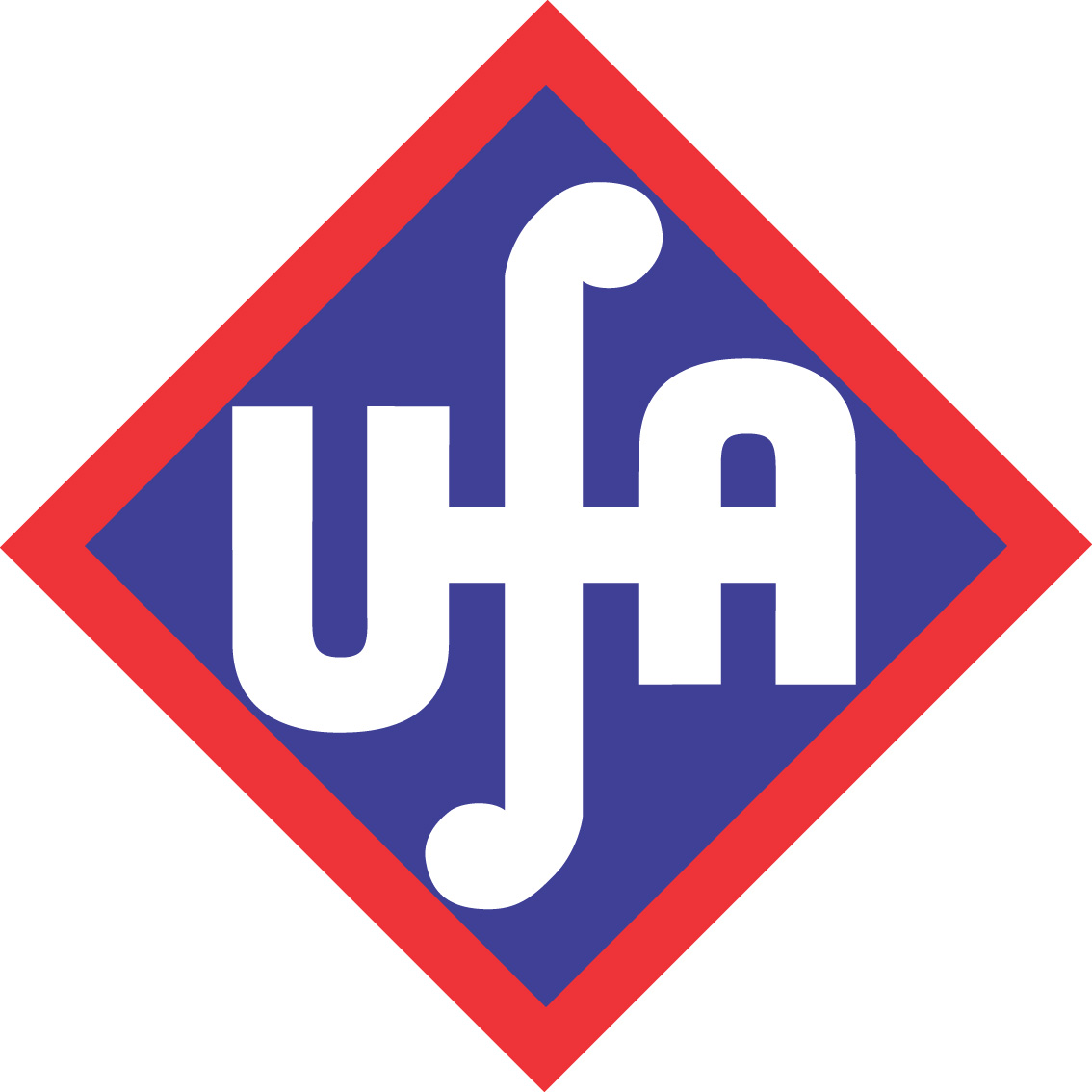 Altes UFA Logo